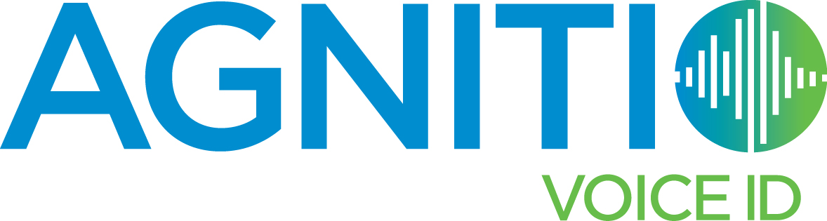 New company logo